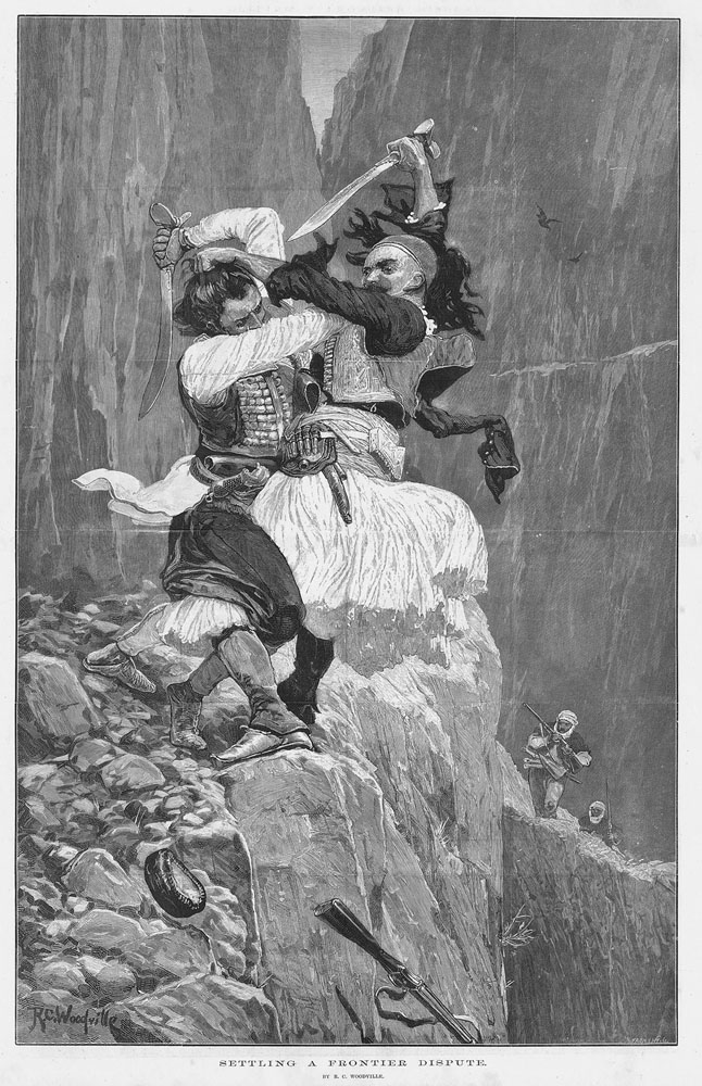 A fight between an Albanian and a Montenegrin on the frontier by R. C. Woodville for The Illustrated London News